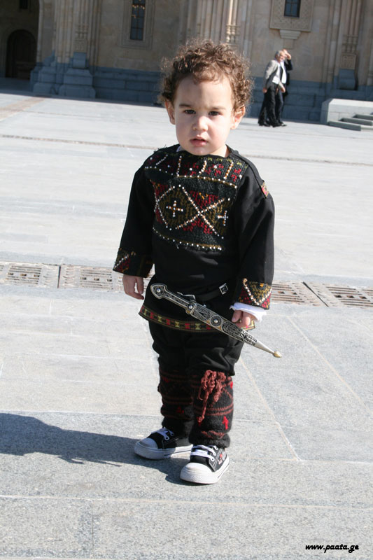 Georgian kid in traditional garments ("chokha") from the province of Khevsureti